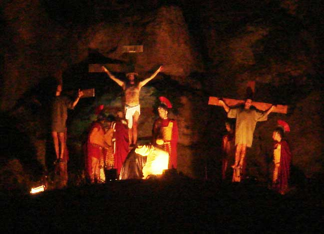 Passion of Christ at Ginosa (TA) (Italy)